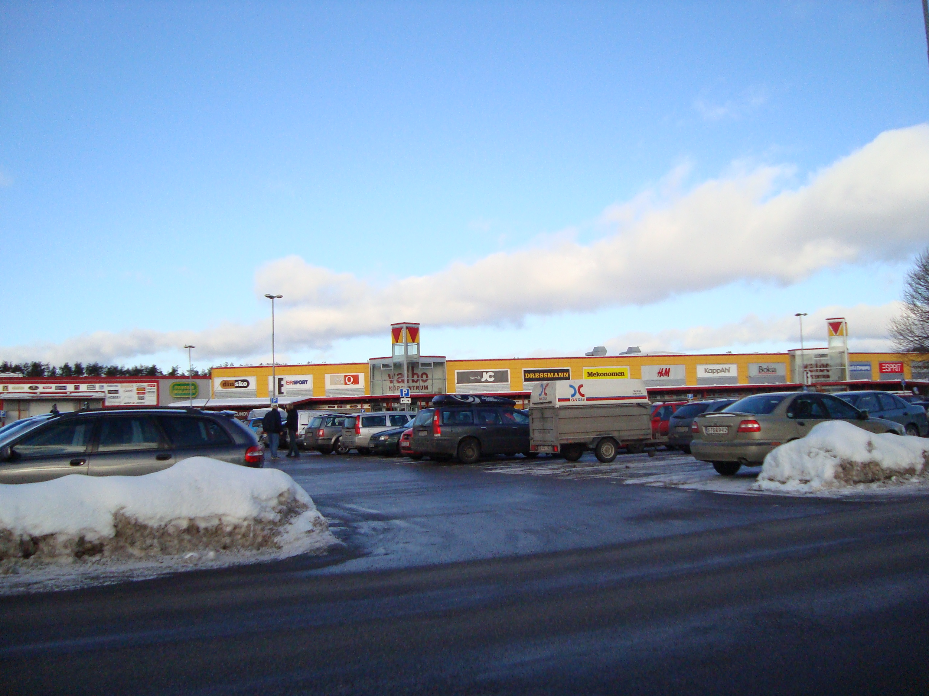 Shopping mall "Valbo köpcentrum", Sweden.